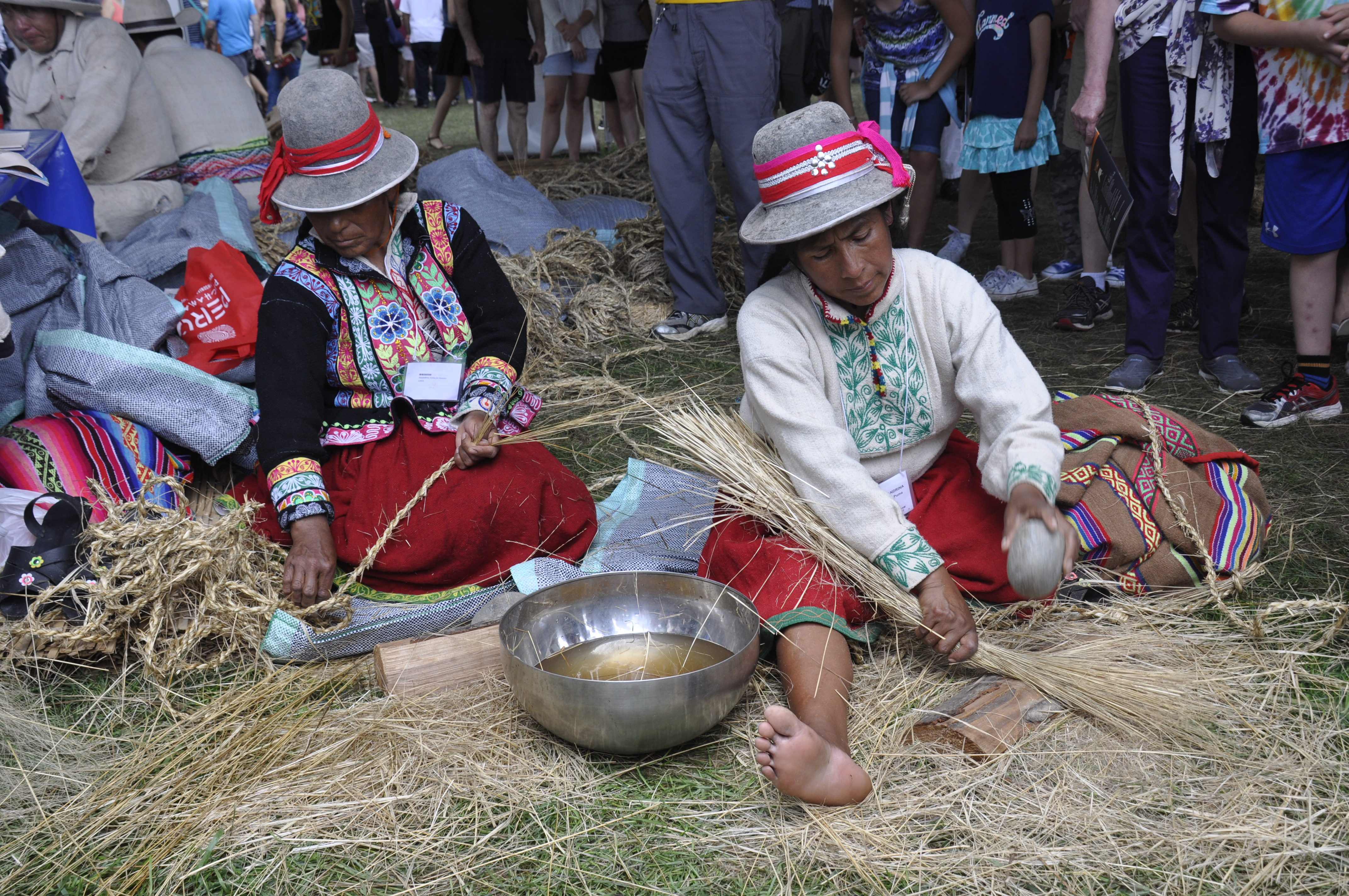 Quechua craftman weaving a rope to be used for the bridge. The Inkas built the Q’eswachaka Bridge using a local grass called ichu (Jarava ichu) to make q’oya, braided ropes that could be destroyed after crossing the Apurimac River. Now the bridge is rebuilt annually by members of four Quechua communities: Huinchiri, Chaupibanda, Choccayhua, and Ccollana Quehue, who work together to maintain the tradition. Every June, four Quechua communities convene to build the Q’eswachaka. They first ask the Pachamama for permission and then collect the q’oya ropes braided by women and young girls. The chakarauwaq (engineers) tie the ropes, let the old bridge fall, and begin weaving. Once finished, they give thanks to Apu Q’eswachaka (mountain spirits). [1]